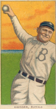 Cropped from White Borders (T206) baseball card for Rube Kisinger